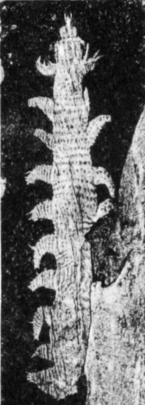 Aysheaia pedunculata, retouched image.